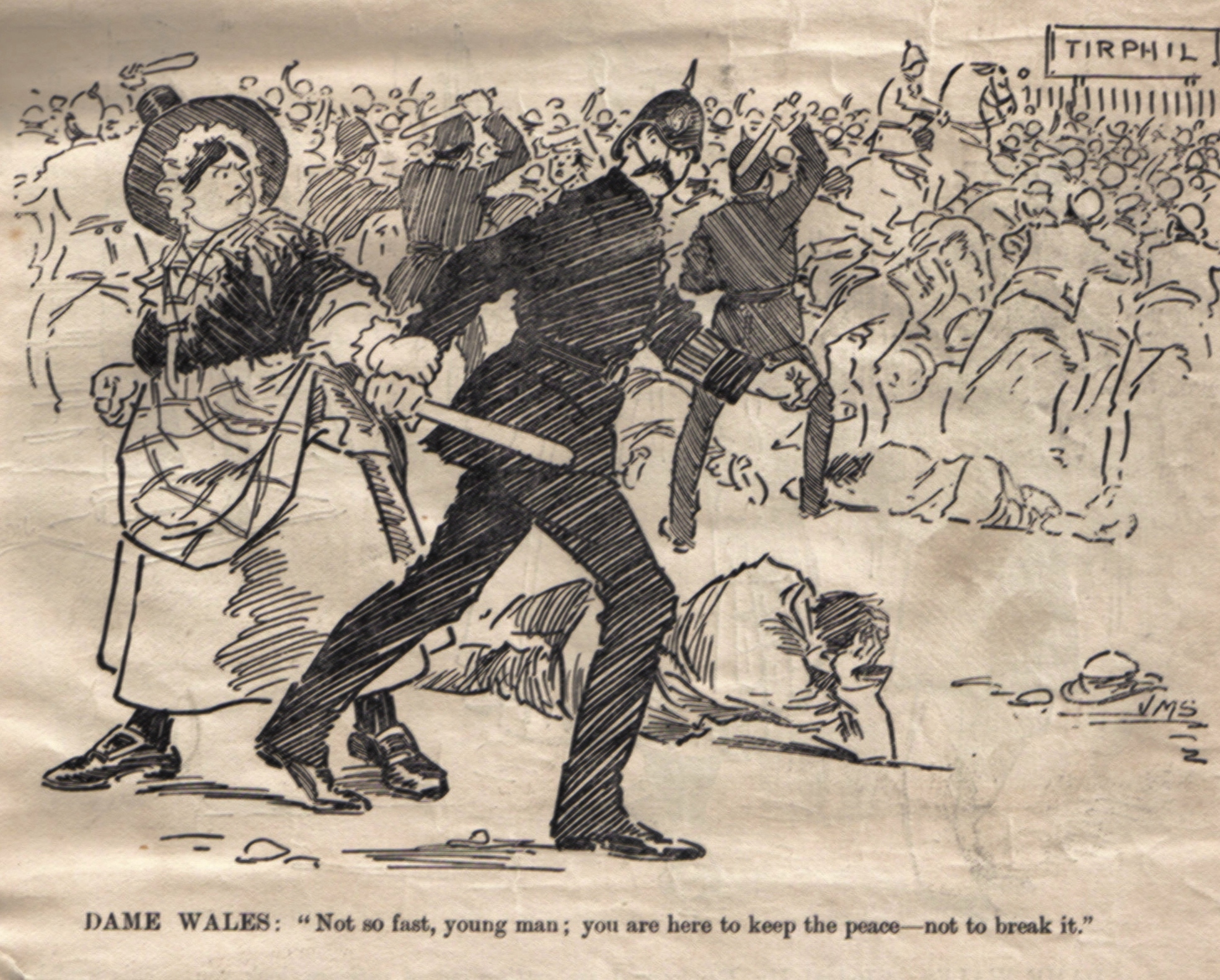 Cartoon originally published in the Western Mail (Cardiff), 1898. Art and commentry by Joseph Morewood Staniforth. Dame Wales confronts riot police